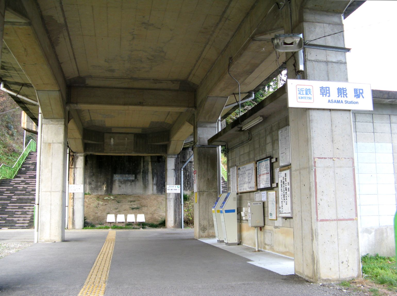 Asama Station, Ise, Mie, Japan